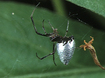 female Argyrodes bonadea from Okinawa.